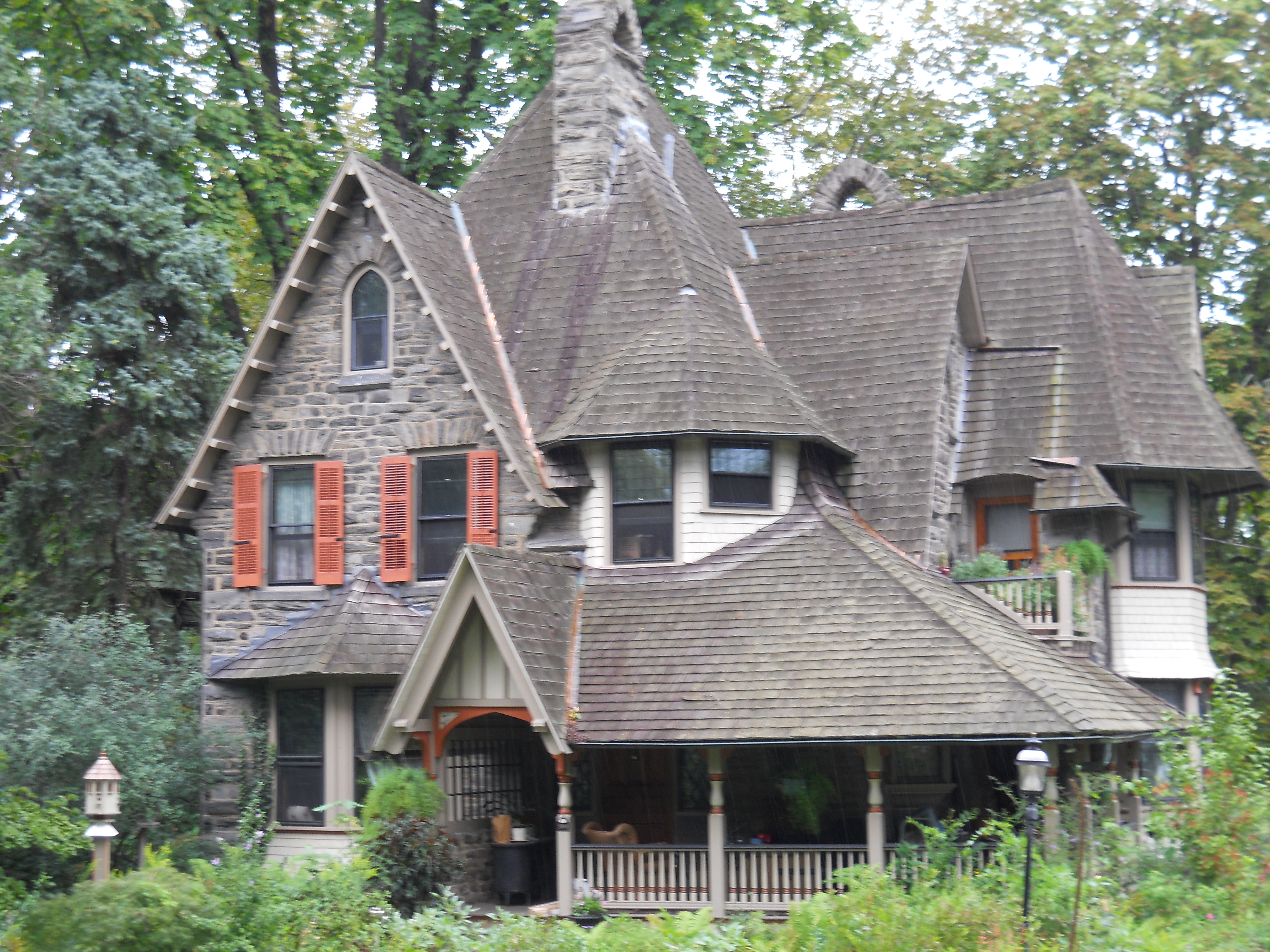 Yeakle and Miller Houses Yeakle and Miller Houses, Erdenheim, Springfield Township. 500 Bethlehem Pike and 9 Hillcrest Avenue.